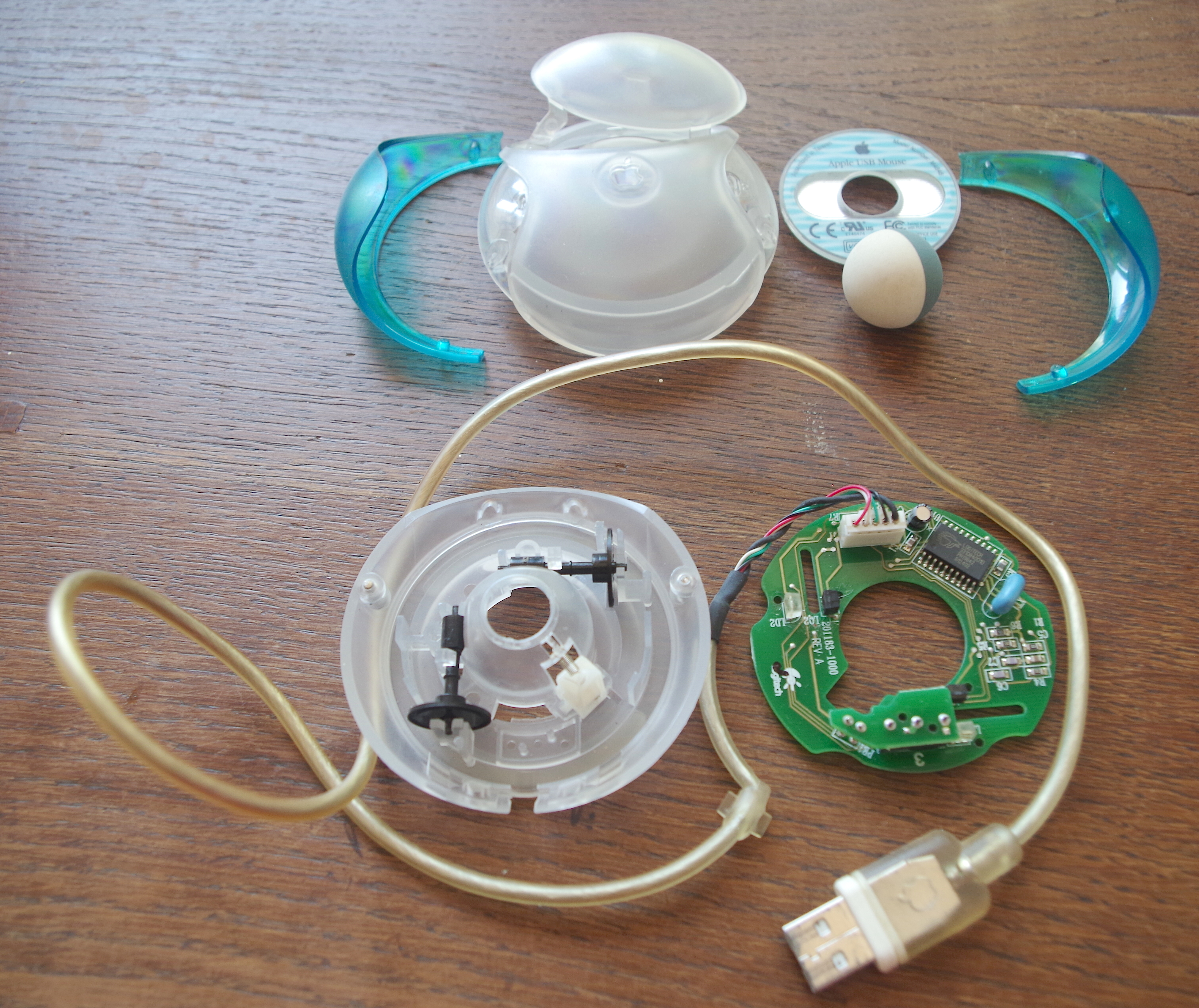 Open Apple USB mouse in bondi blue